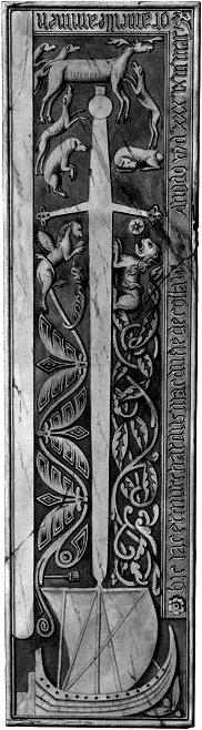 "A tomb in MacDufie's Chapel, Oronsay, 1772". Located on the island of Oronsay, in the Scottish, Inner Hebrides. The tomb of Murchardus Macdufie "close to the S wall of Macdufies Chapel Oransay", drawn by John Cleveley, junior, after a sketch taken on August 8th 1772. On the back of the drawing is inscribed, presumably by Sir Joseph Banks, the following: "We were told that this Mcfee [Macdufie] was a factor or manager for Macdonald King of the Isles upon these islands of Oransay and Colonsay & that for his mismanagement & tyranny he was executed by order of that prince".